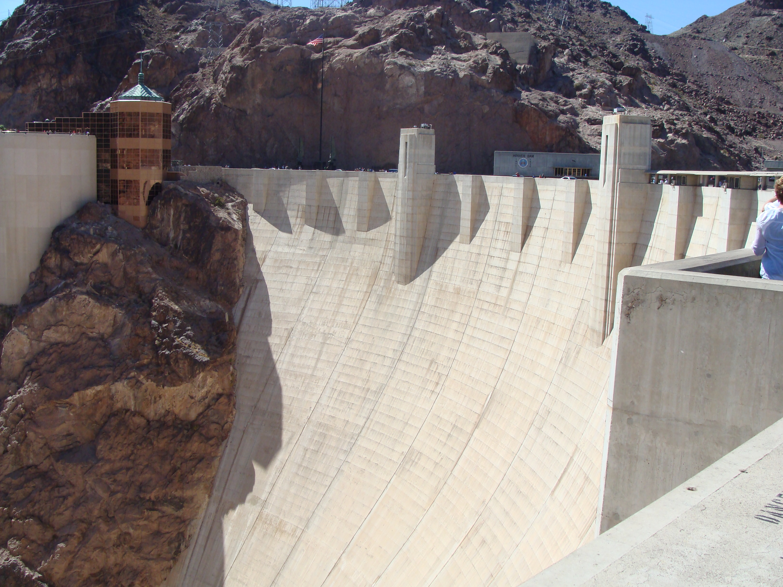 Hoover Dam